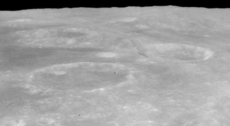 Oblique view of Cook crater (below left of center) and Monge crater (above right of center), facing south. Beyond Cook is Biot B crater. Brightness and contrast adjusted slightly.